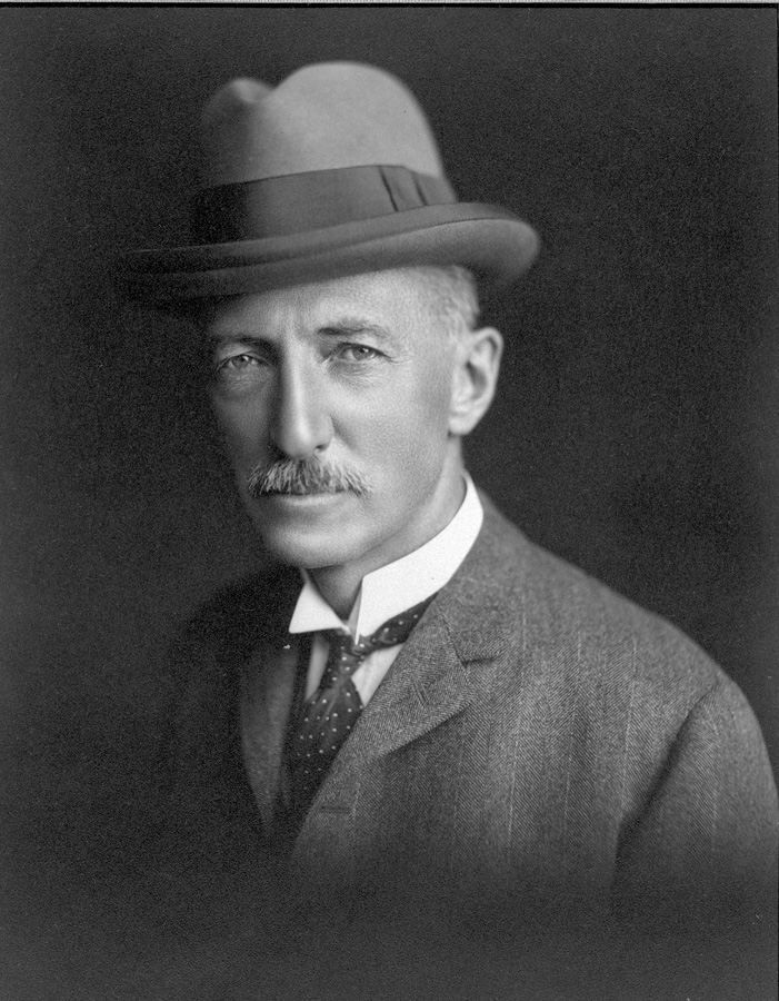 Philip C H Primrose.